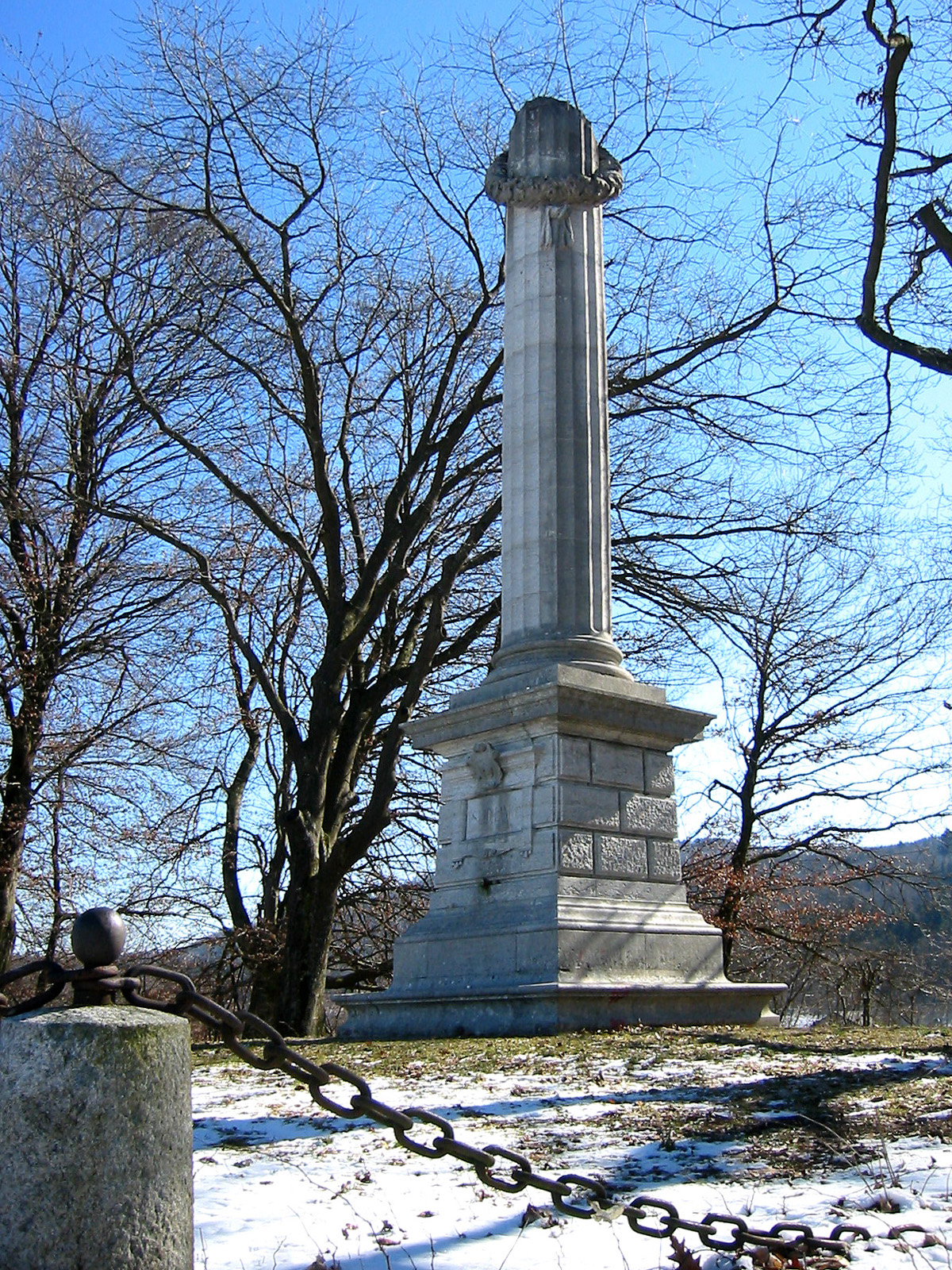 Grauholz memorial near Schönbühl, Bern, Switzerland.